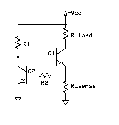 Electronic circuit schematic for a current limiter or current source. An issue with the circuit here:Current_limiting_using_bjt.gif , is that Q1 will not be saturated unless its base is biased about 0.5 volts above Vcc. This circuit operates more efficiently from a single (Vcc) supply. In this circuit, R1 allows Q1 to turn on and pass voltage and current to the load. When the current through R_sense exceeds the design limit, Q2 begins to turn on, which in turn begins to turn off Q1, thus limiting the load current. The optional component R2 protects Q2 in the event of a short-circuited load. When Vcc is at least a few volts, a MOSFET can be used for Q1 for lower dropout-voltage. Due to its simplicity, this circuit is sometimes used as a current source for high-power LEDs.